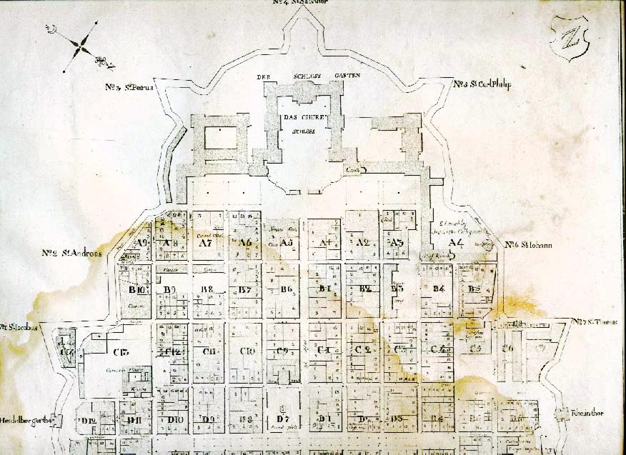 Groundplan of Mannheim ("Mannheimer Quadrate"), first section. Copper engraving.